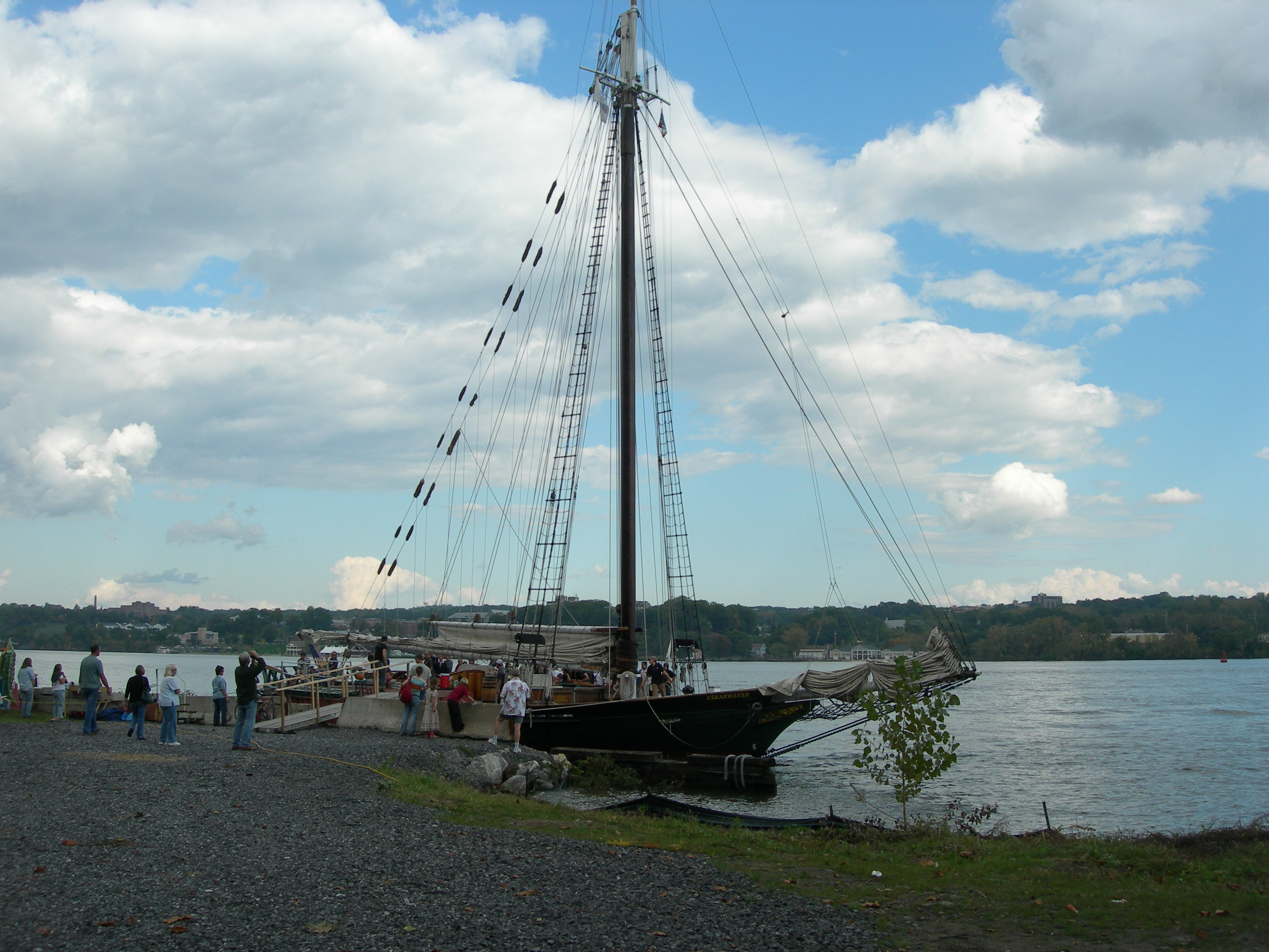 The Hudson River Sloop Clearwater, docked at Highland.